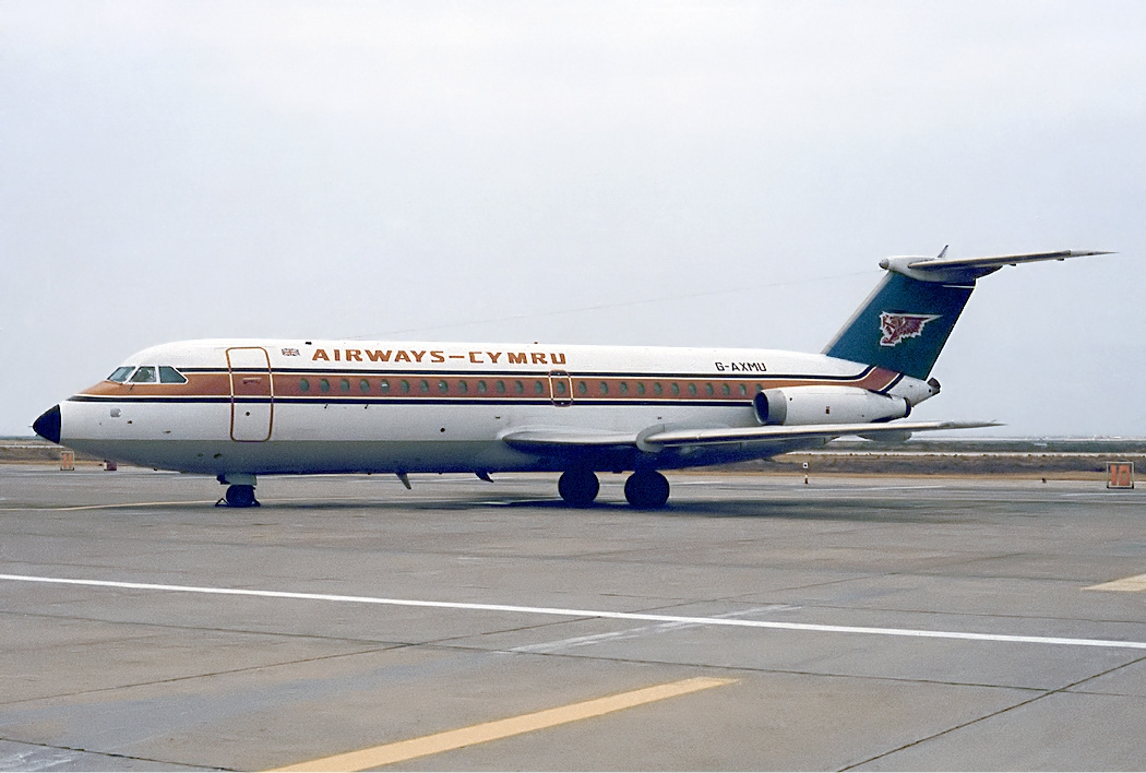 Airways International Cymru BAC 111-432FD One-Eleven